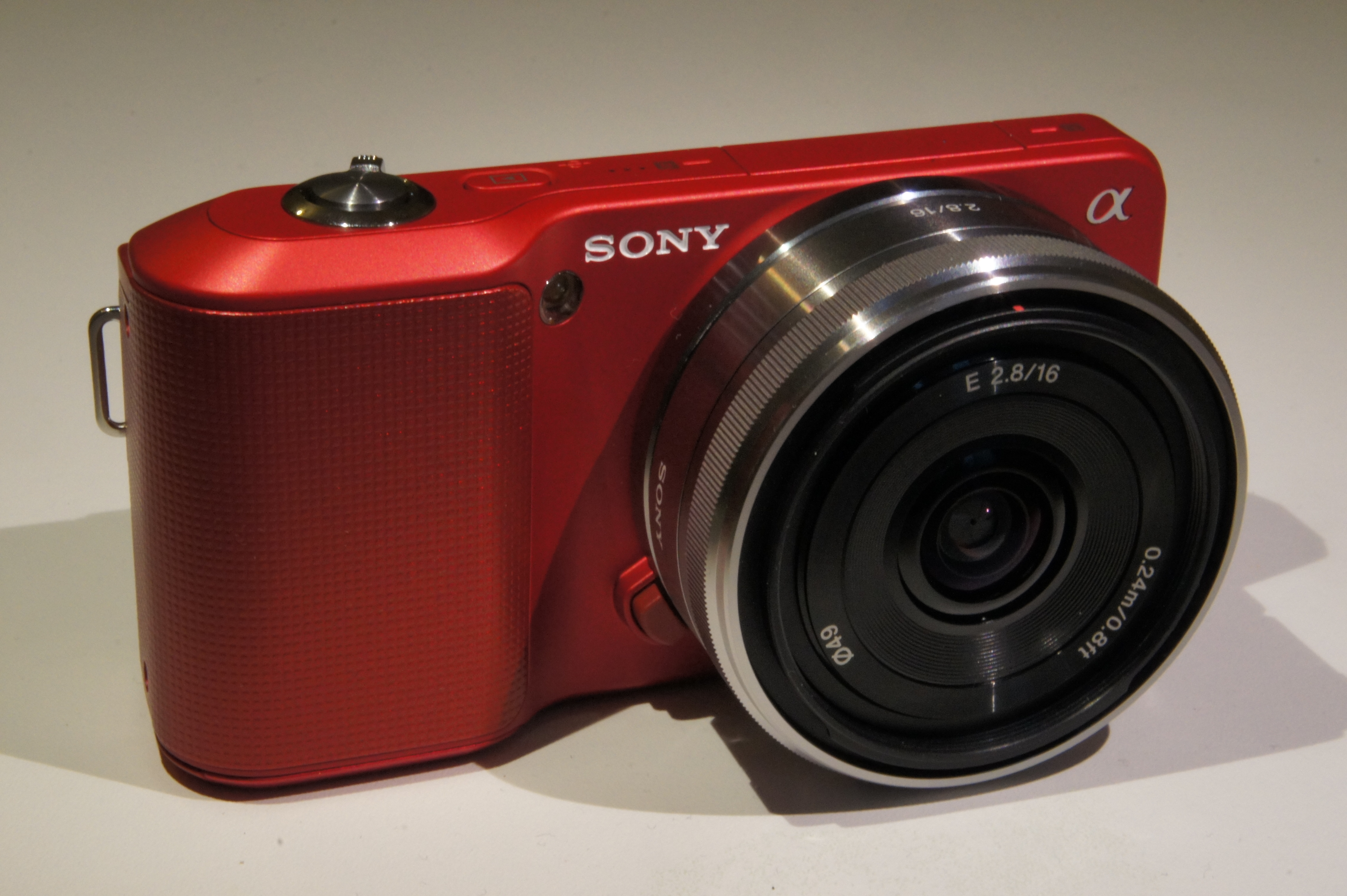 Sony NEX-3 with Pancake E16